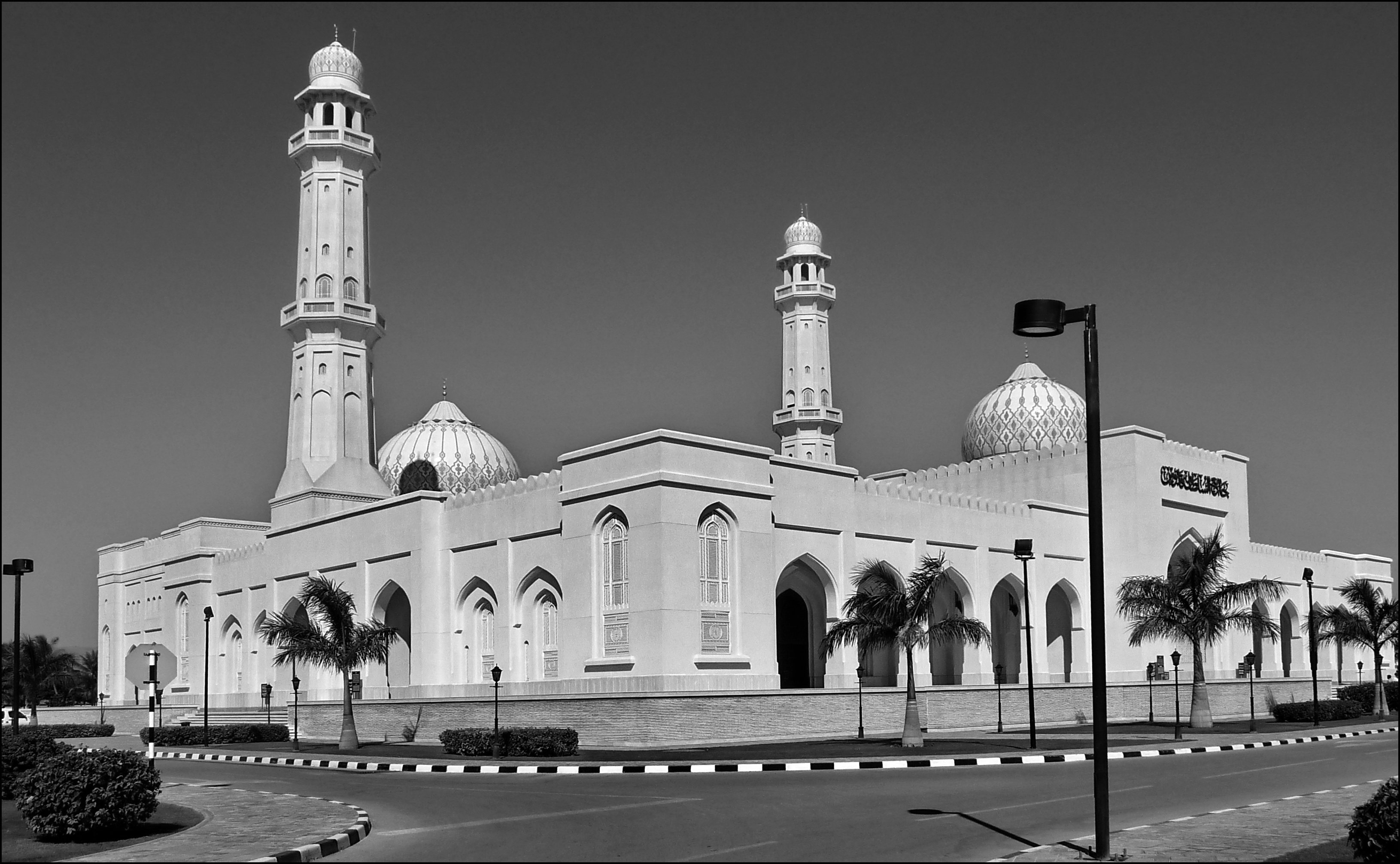 The Salalah mosque B/N